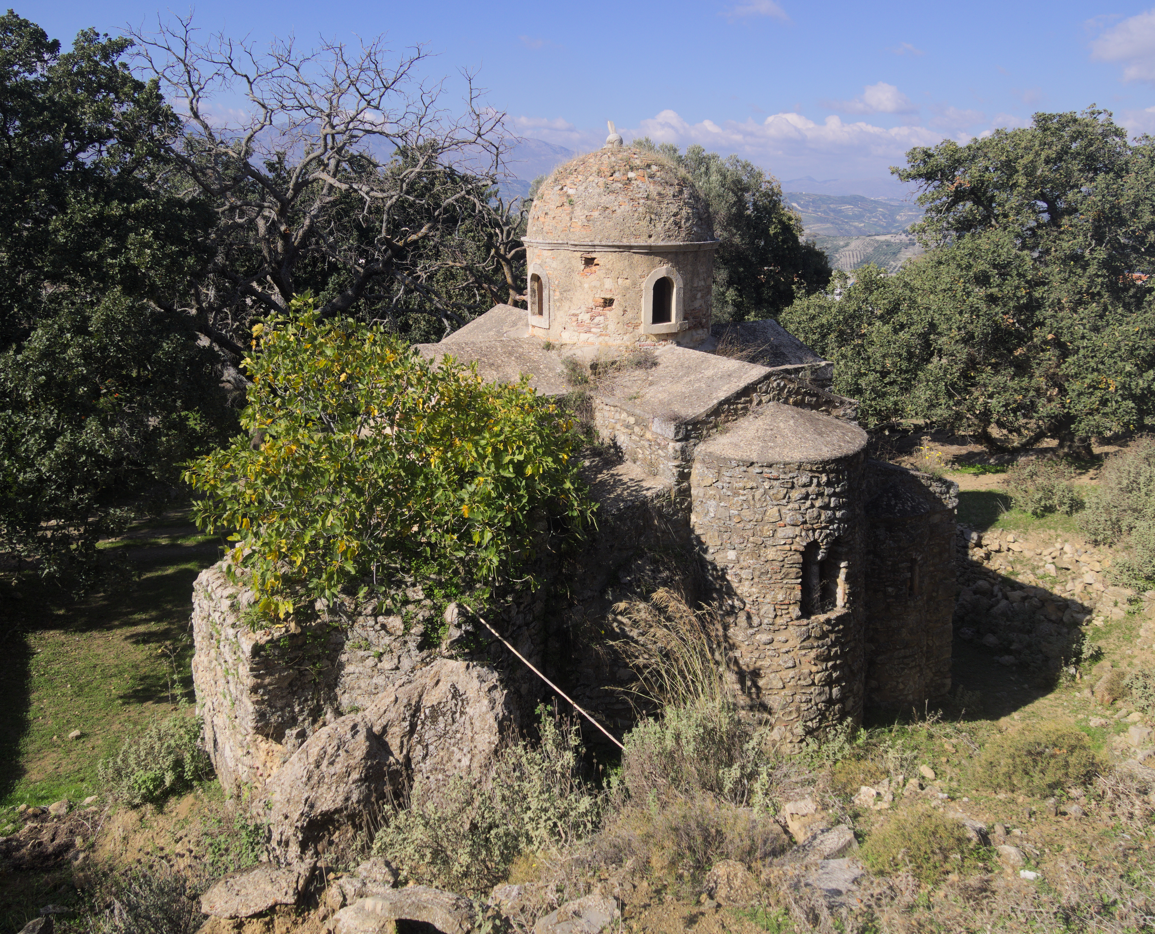 The byzantine church of Agios Ioannis (Saint John) at Roukani, Heraklion municipality.